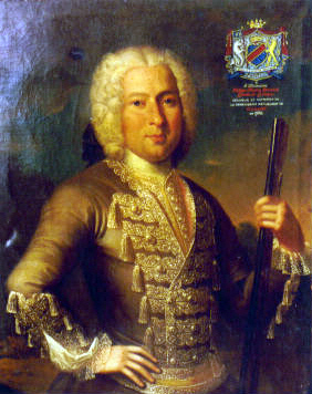 Vlaho Kabužić /Blaž Kaboga, Blasius Caboga, Biagio Caboga/ (1698-1750), Croatian nobleman and diplomat from the Republic of Ragusa